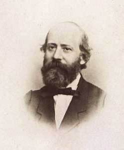 Theude Grønland (1817-1876), Danish painter